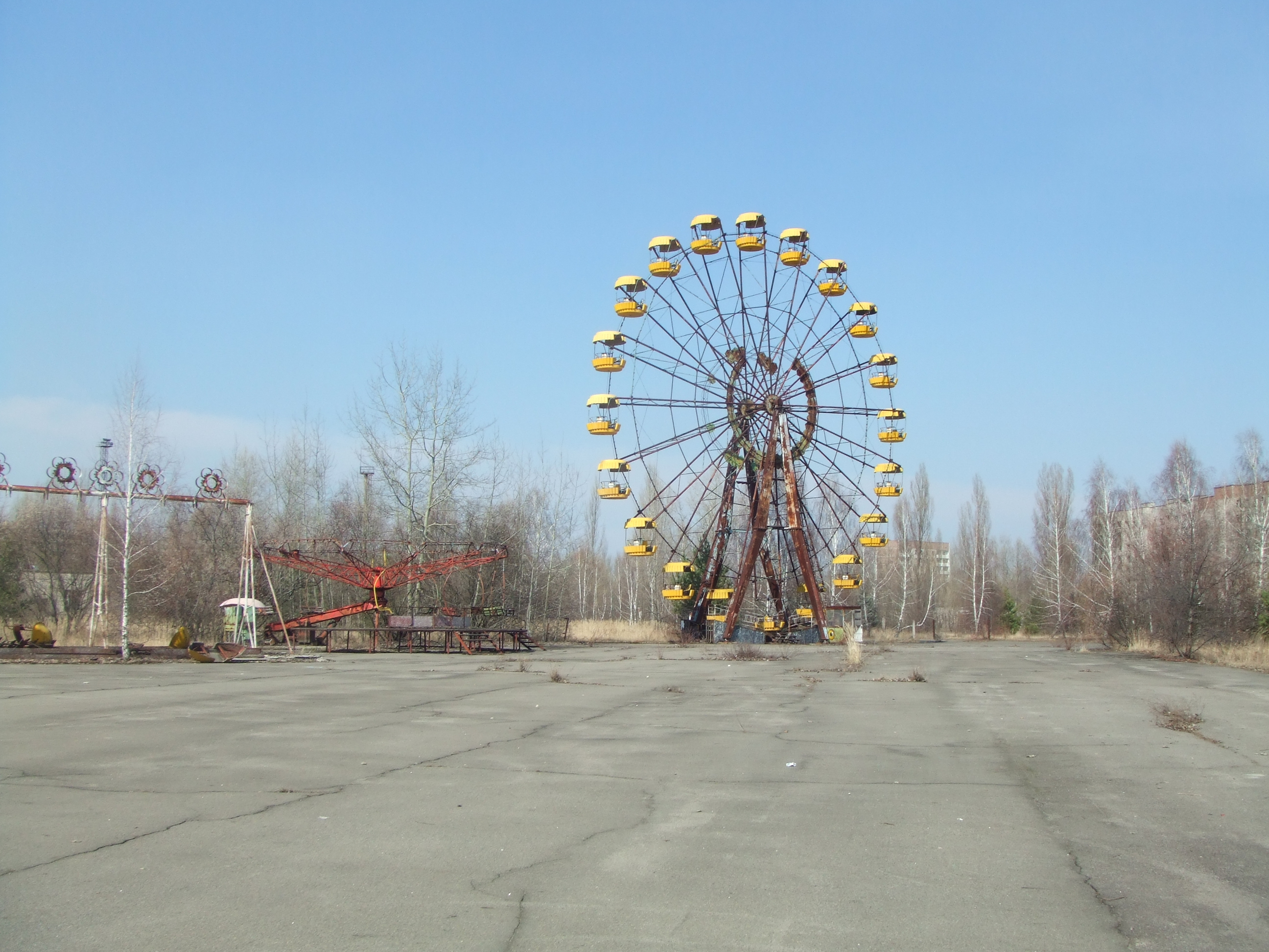 Abandoned funfair in Pripyat. These rides in preparation for May day, were never used.